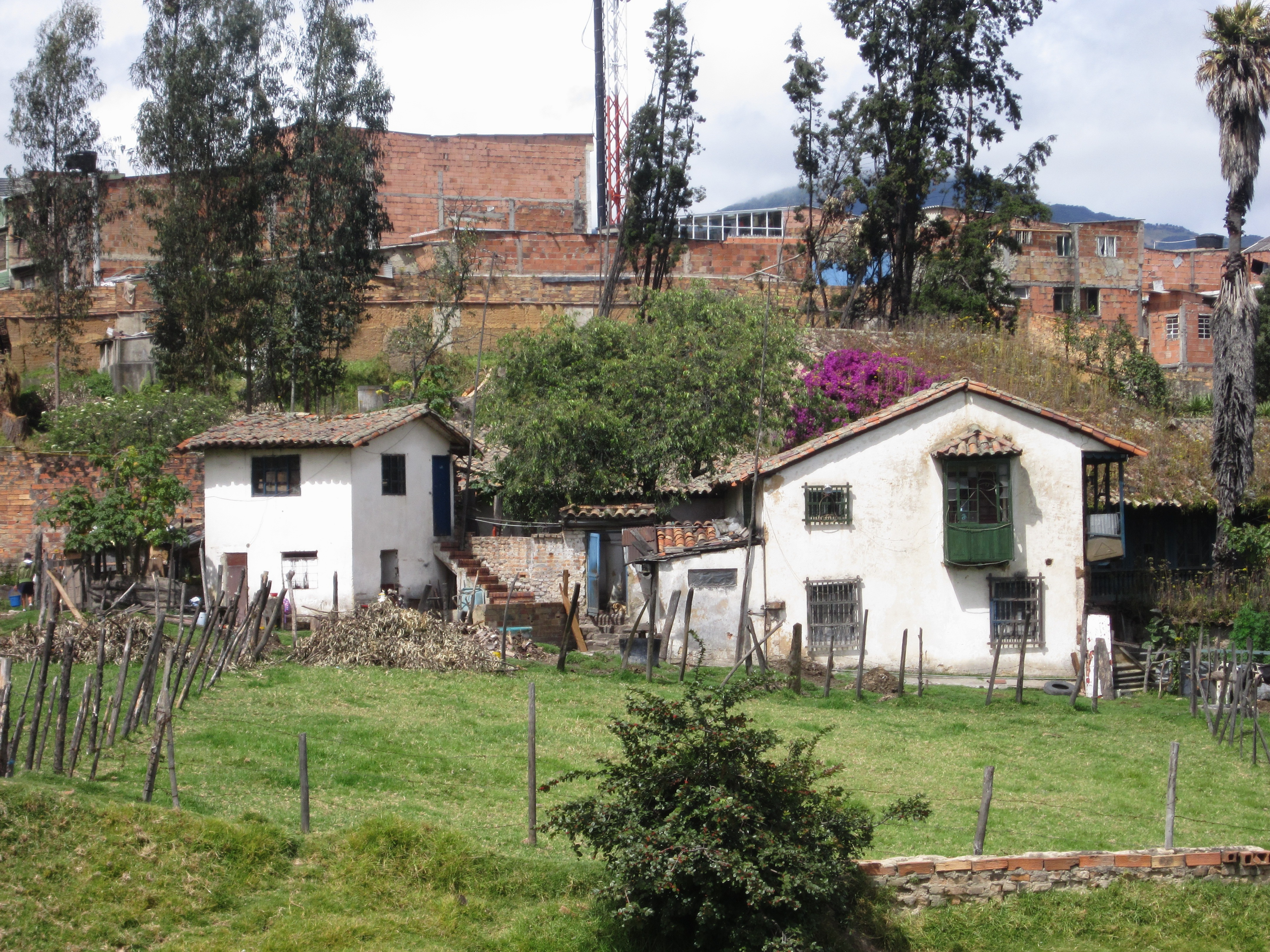 Bogotá, Hacienda Molinos.